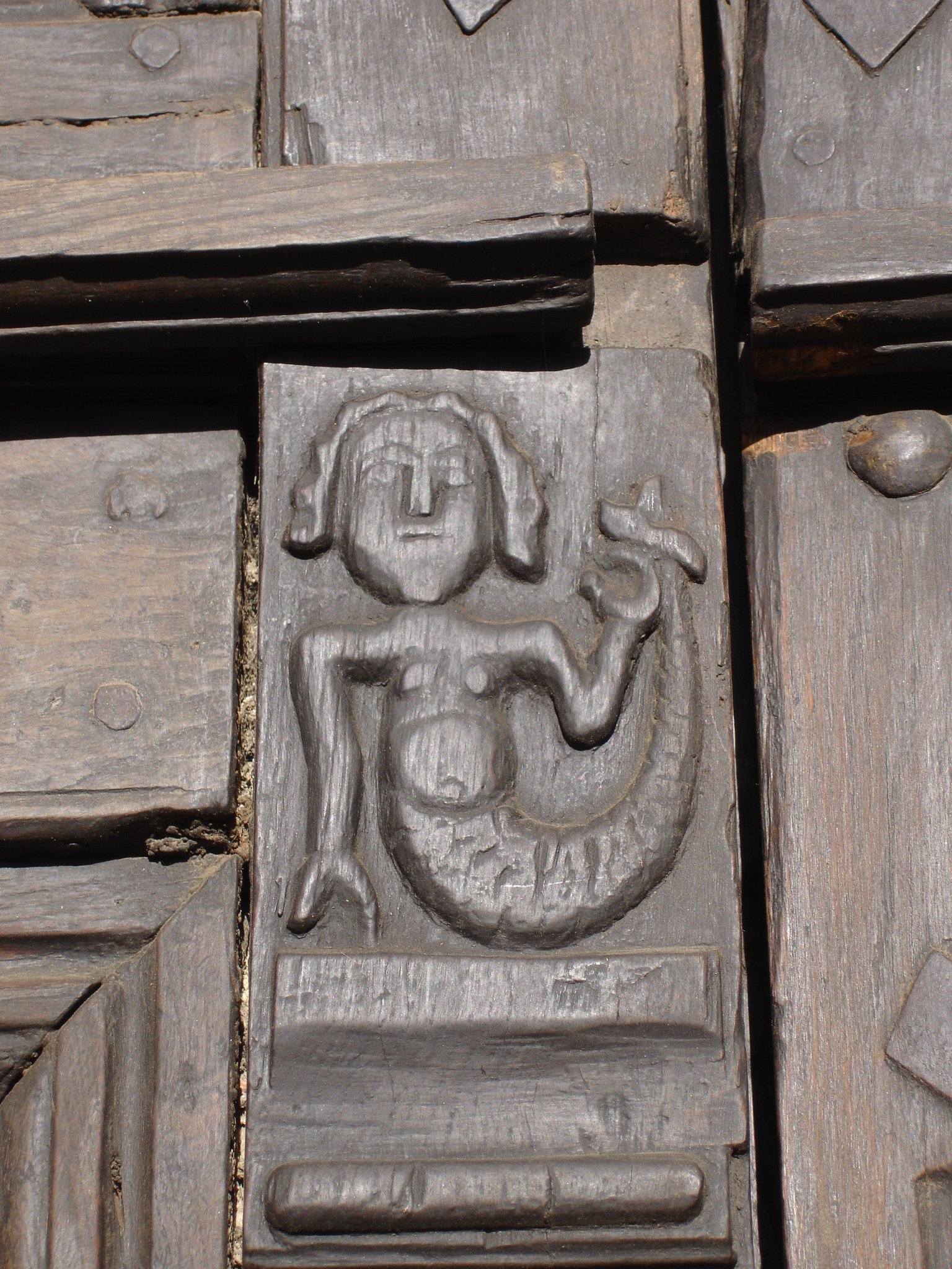 France, Haute-Garonne (31), Villefranche-de-Lauragais, door of church